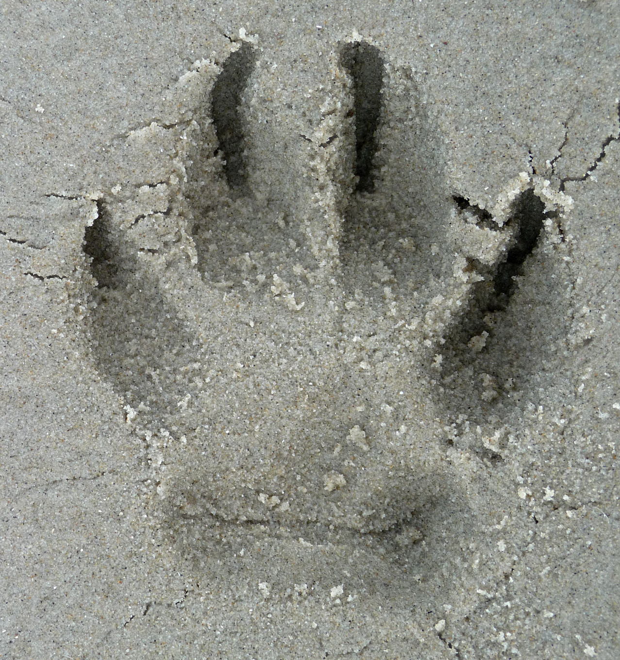 Foot print of a dog (Labrador) on the beach